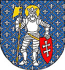 Coat of arms of Rajec, Slovakia